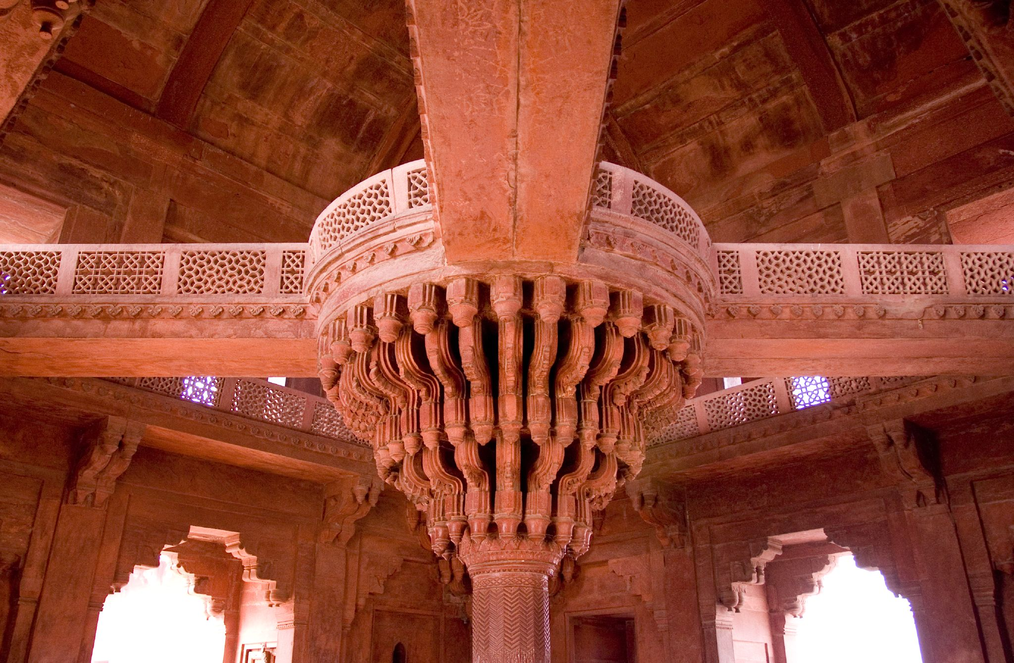 interior of the Diwan-i-Khas (hall of private audience) at Fatehpur Sikri (Uttar Pradesh, India) Akbar stood on the platform above the pillar and addressed his court from up high.